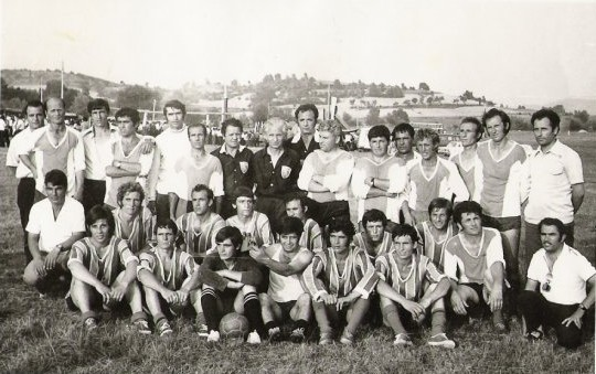 The main and secondary football teams "Tsarveno Zname" of the village of Kochan.